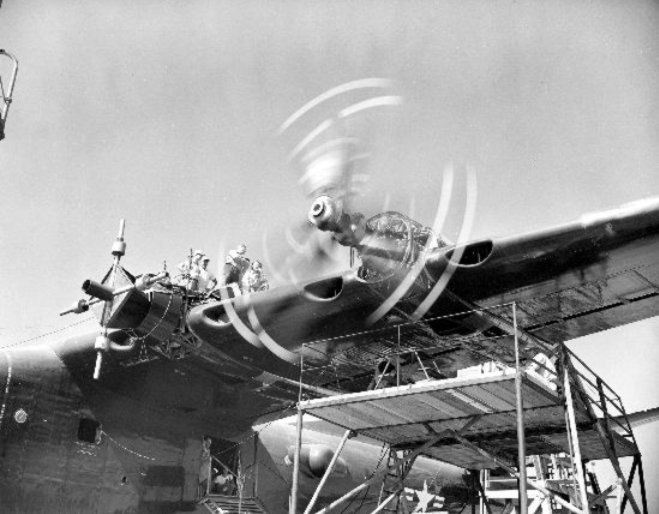 Engine test of the Allison T40 turbo-prop engine of the Convair XP5Y-1 Tradewind, in 1950.